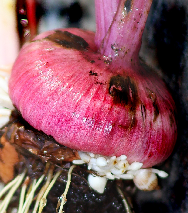 Self made image of corm showing the growth of cormels.